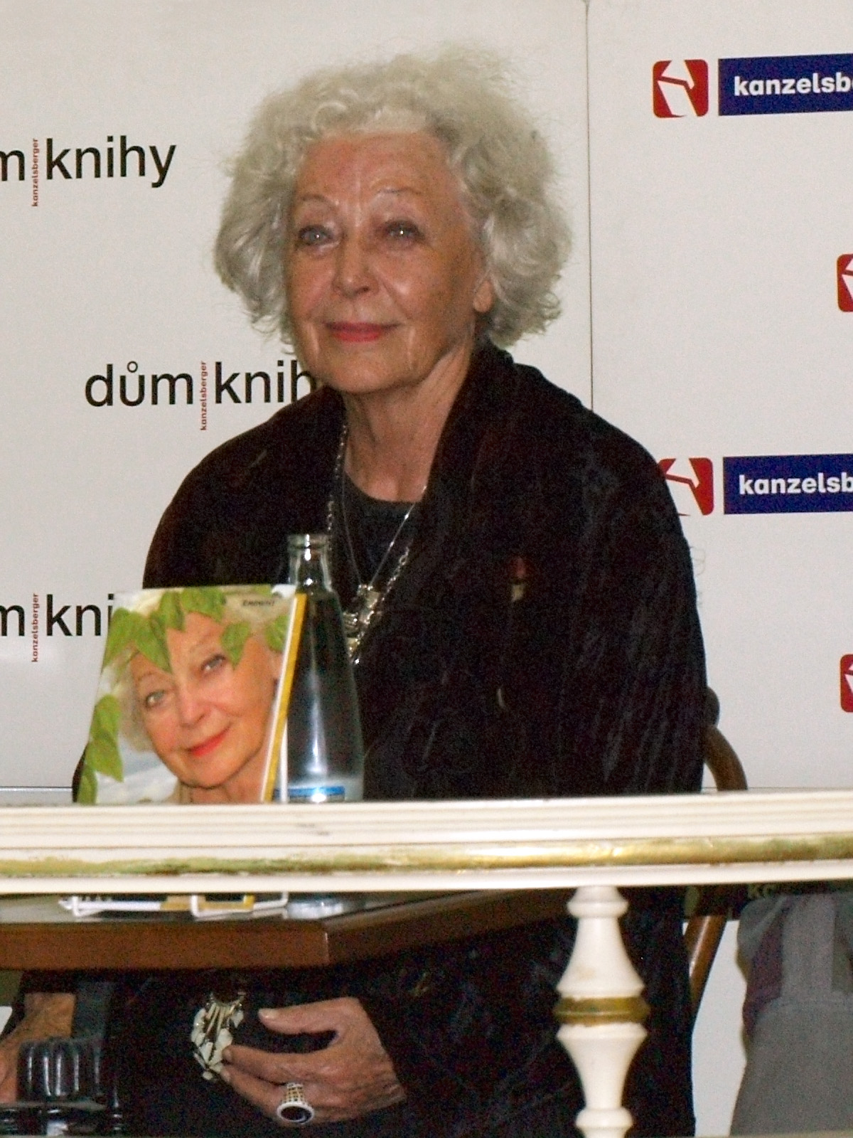 Czech actress Květa Fialová